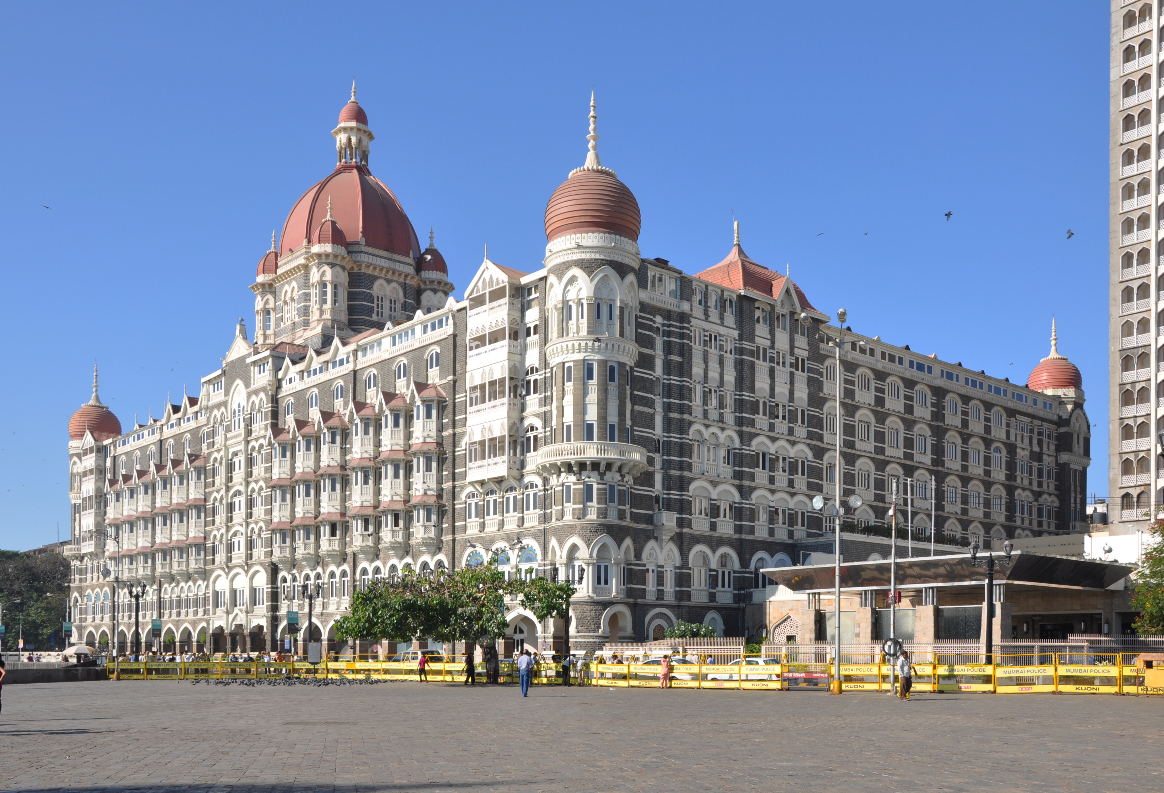 The Taj Mahal Palace in Mumbai, India.